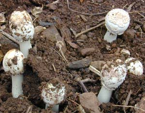 Immature (emerging) mushrooms taken on O'ahu in Hawai'i